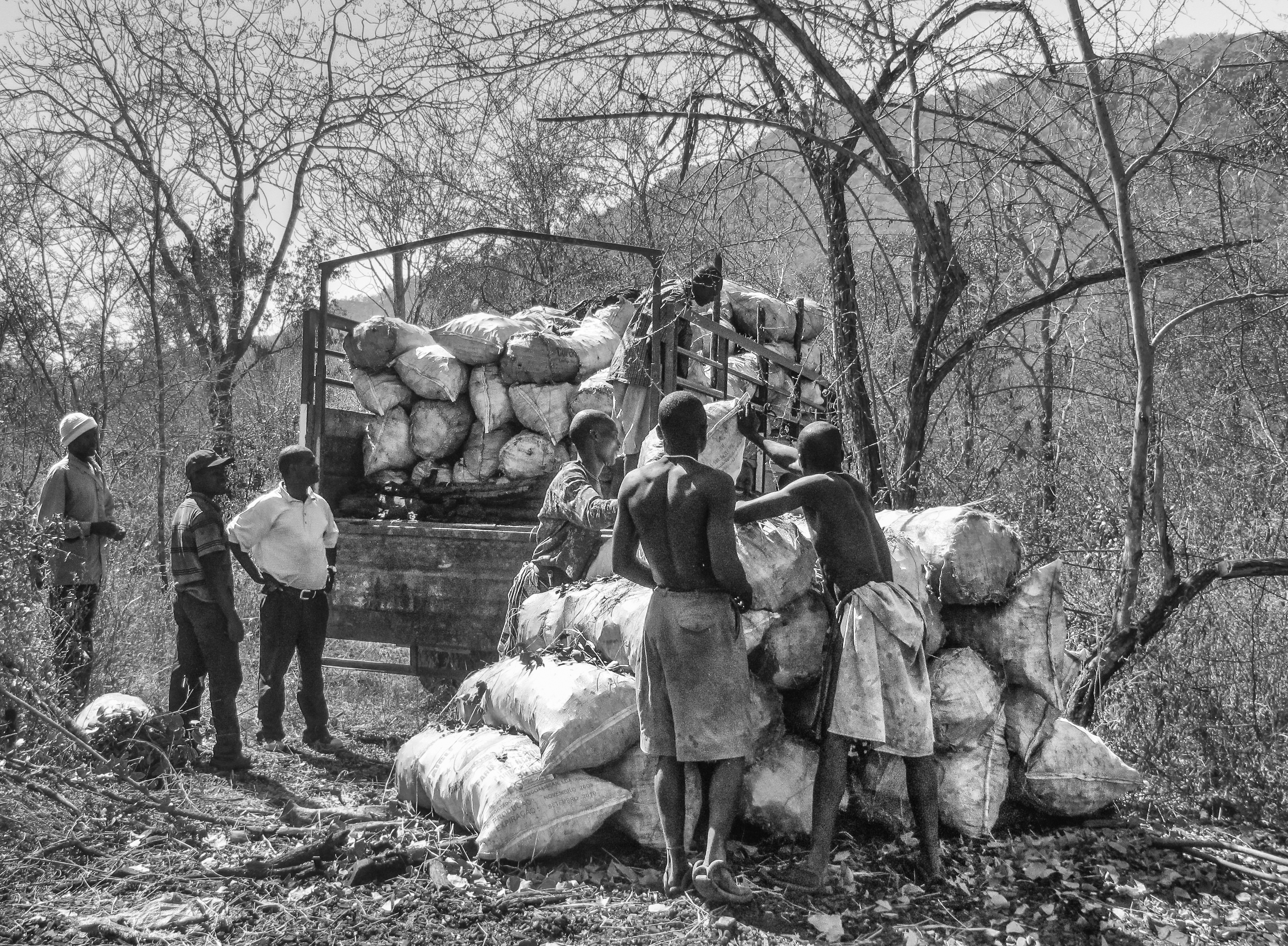 Producing charcoal, especially in the Miombo woodlands, is a hard and tiring work. Men of the villages of the Namibe province (Angola) say that at least it allows them to get some money This is an image of "African people at work" from Angola